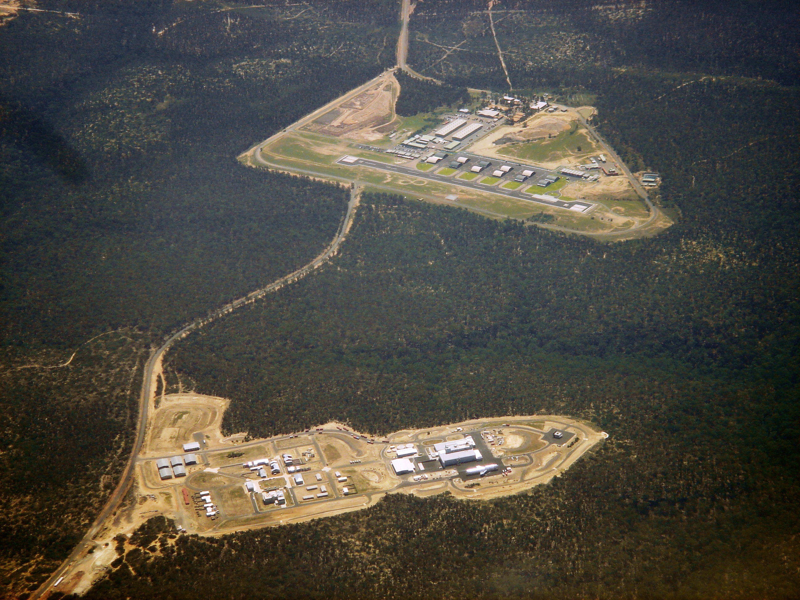 Holsworthy Barracks, New South Wales, Australia is a military base near Sydney.